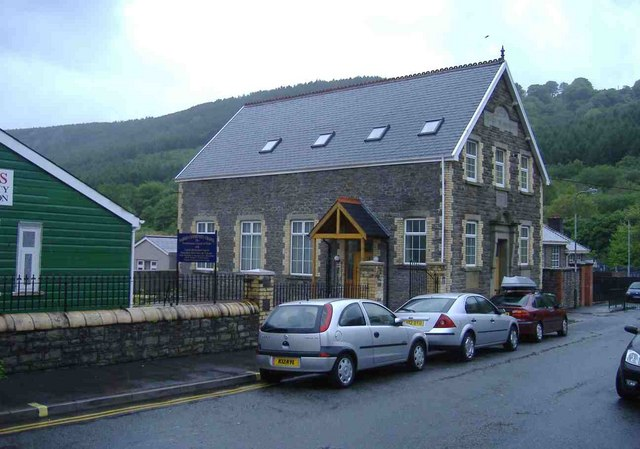 Sardis Community Chapel, Ynysddu This venue is shared by the United Reformed and Presbyterian churches.